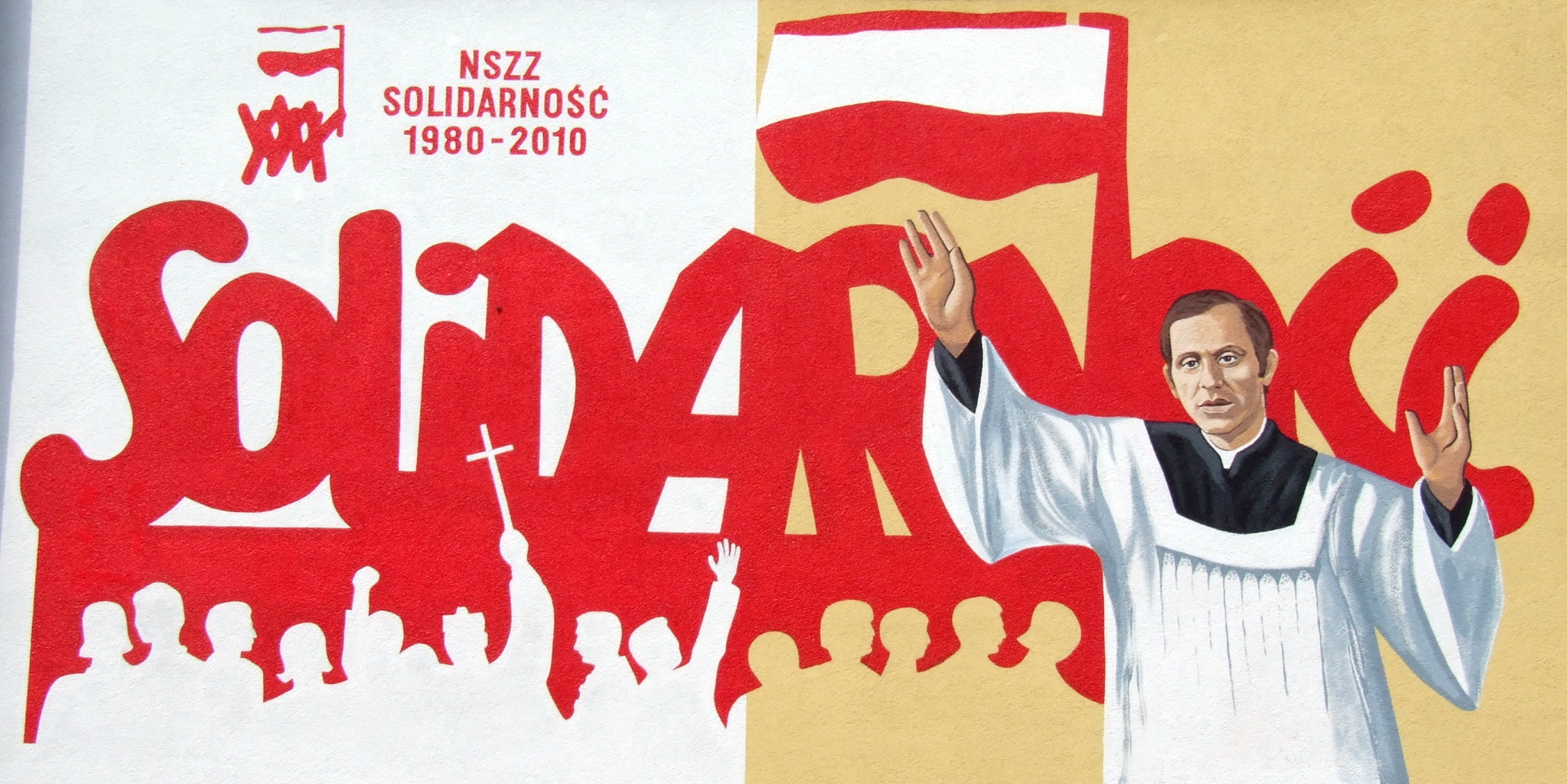 30-years of Solidarity (Polish trade union) mural in Ostrowiec Swietokrzyski (priest Jerzy Popiełuszko in foreground)